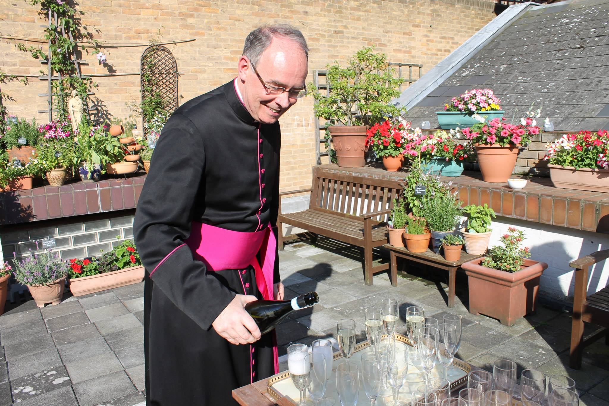 Fr Mark Langham pouring prosecco at the Fisher House terrace.